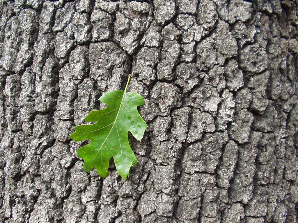 California Black Oak, old growth bark and typical leaf